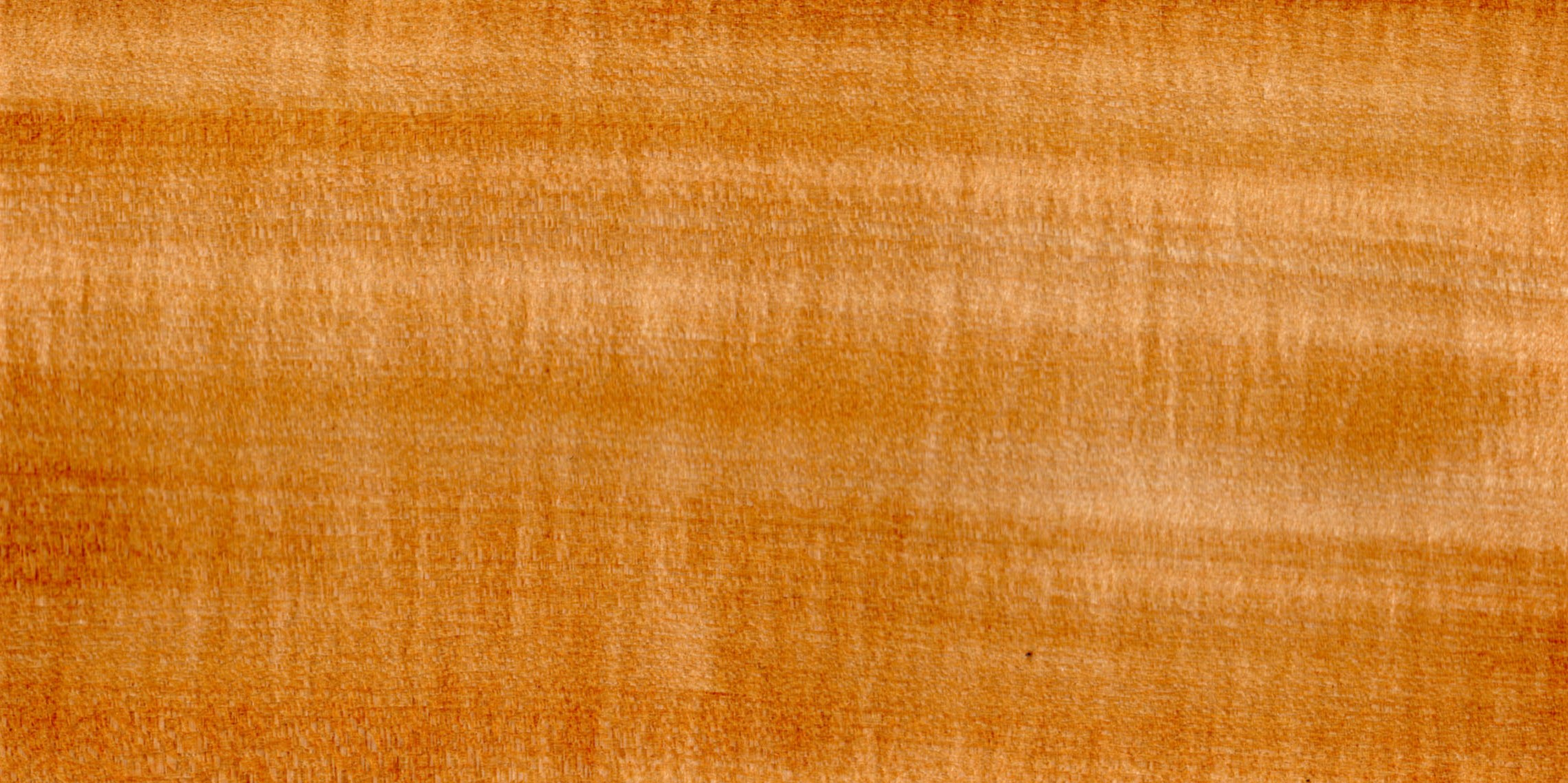 Wood of 'Tilia platyphyllos